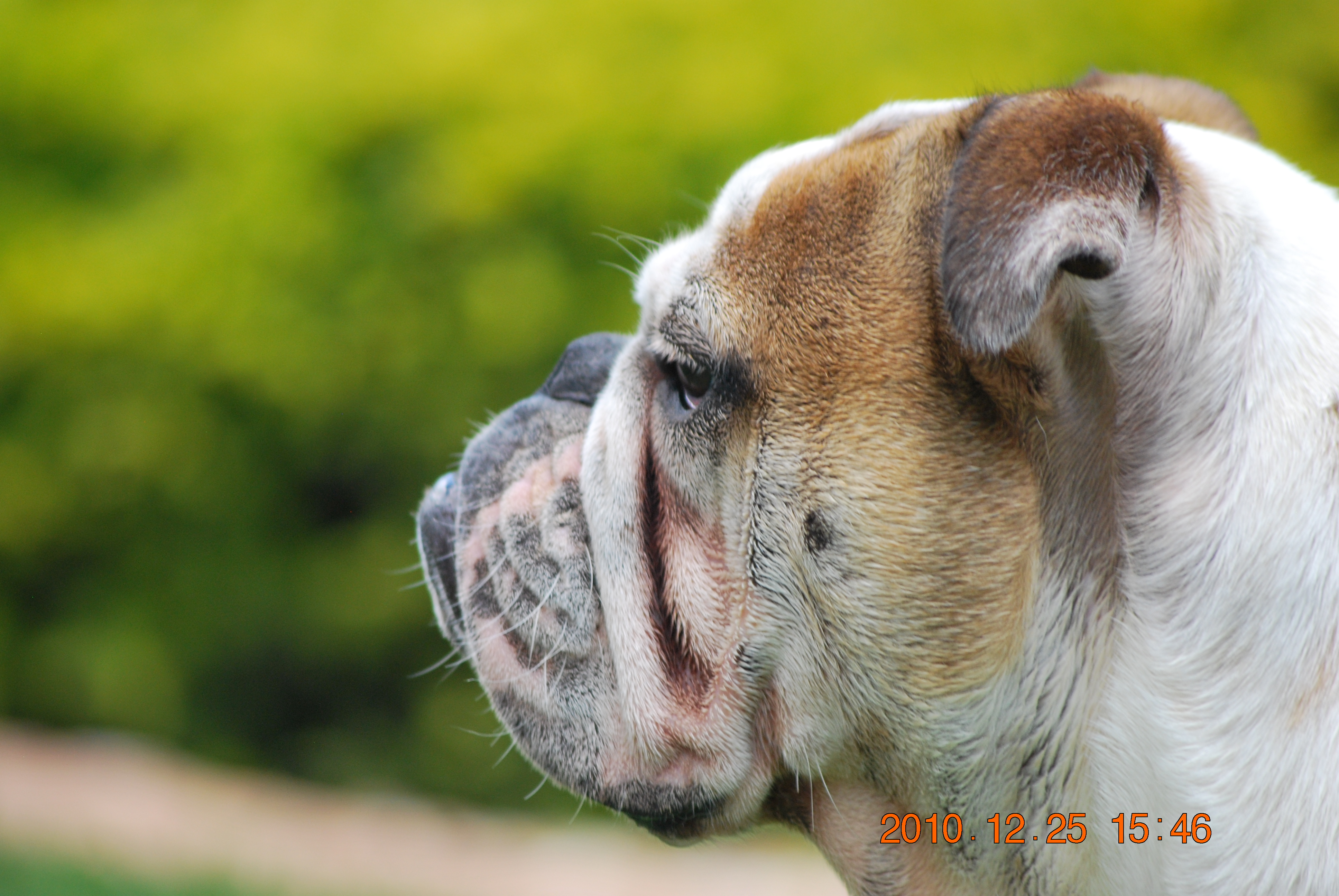 A side profile picture of a british bulldog.